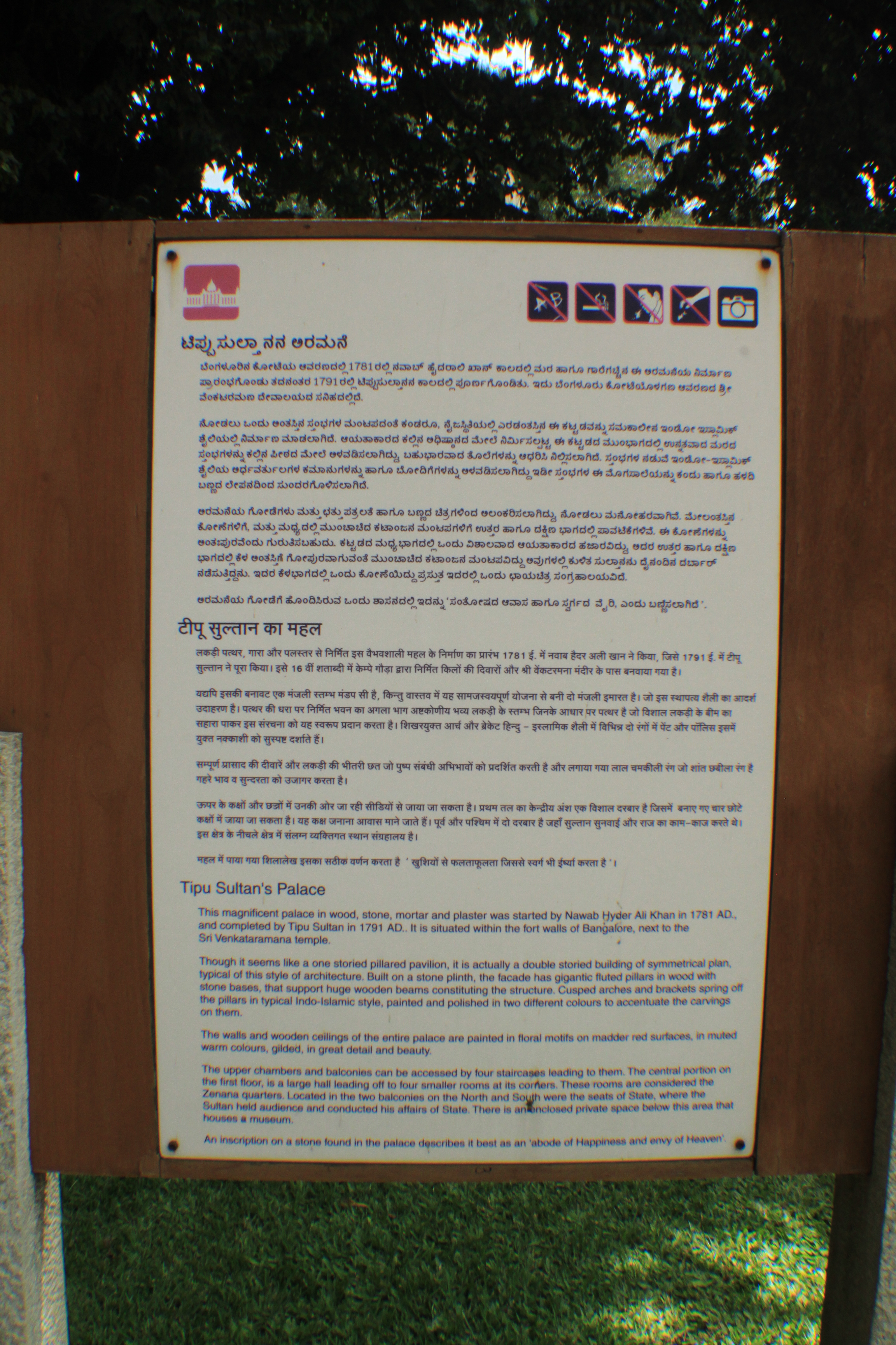 Tipu Sultan's Palace